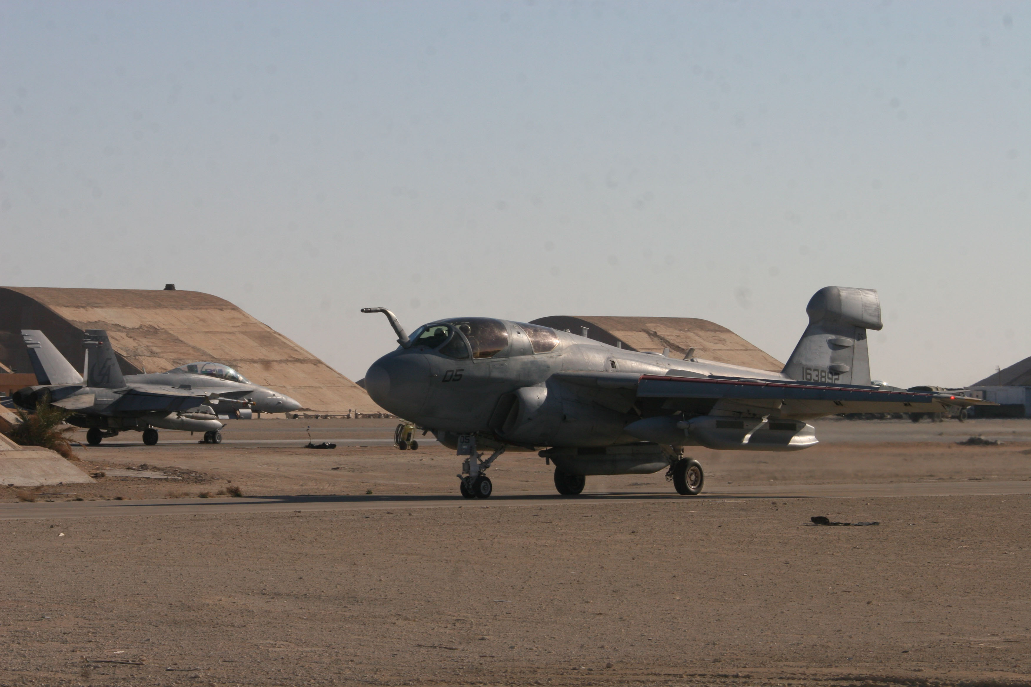 From the source website: "An EA-6B Prowler aircrew taxis onto the flightline, Jan. 21, at Al Asad, Iraq. The flight was the last for the Banshees of Marine Tactical Electronic Warfare Squadron 1, which is preparing to return to Marine Corps Air Station Cherry Point, N.C., after a six-month deployment in support of Operation Iraqi Freedom." (The text, like the image, is PD-USGov-Military-Marines)